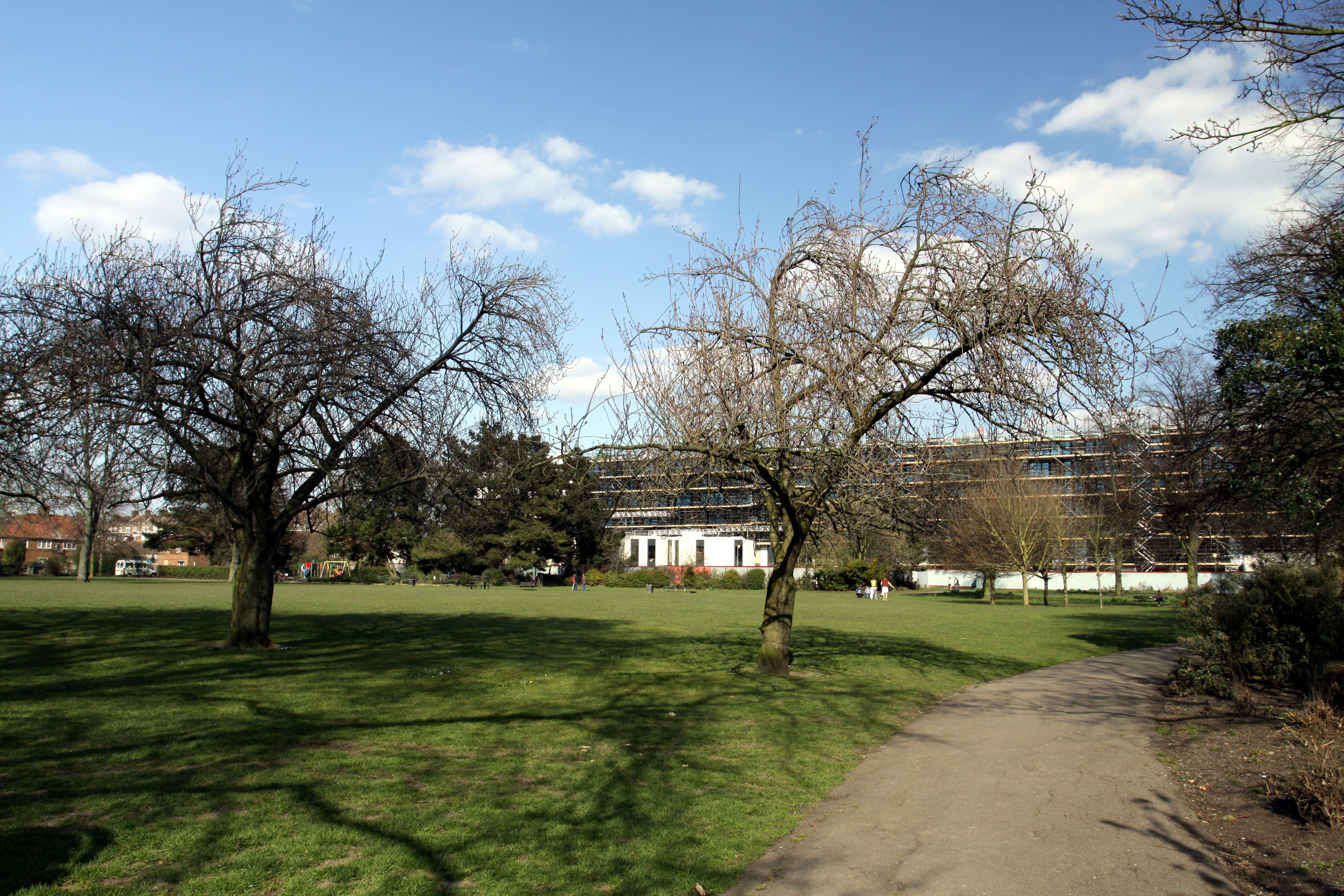 Wormholt Park in the London Borough of Hammersmith and Fulham, London, England, Great Britain. The making of this file was supported by Wikimedia UK.